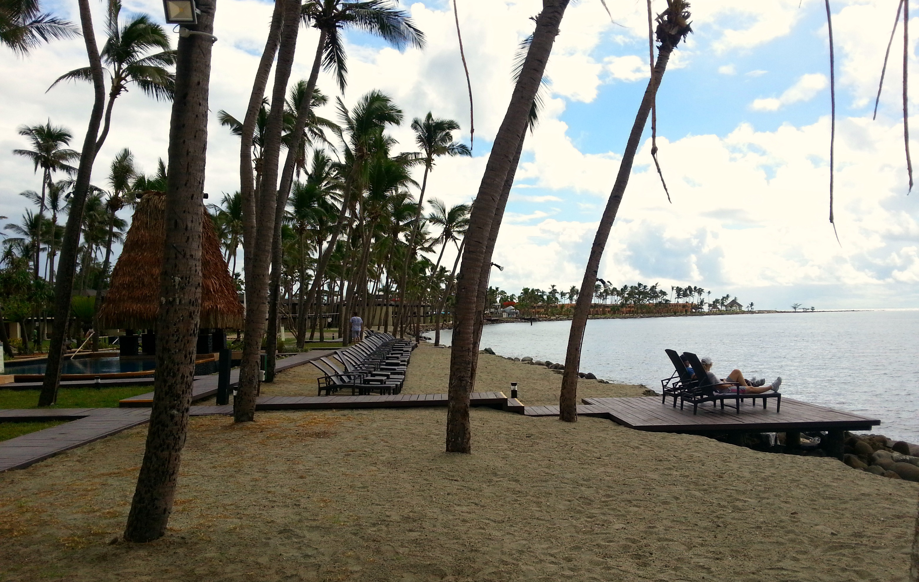 I took this photo on Denarau Island Fiji in February 2013.